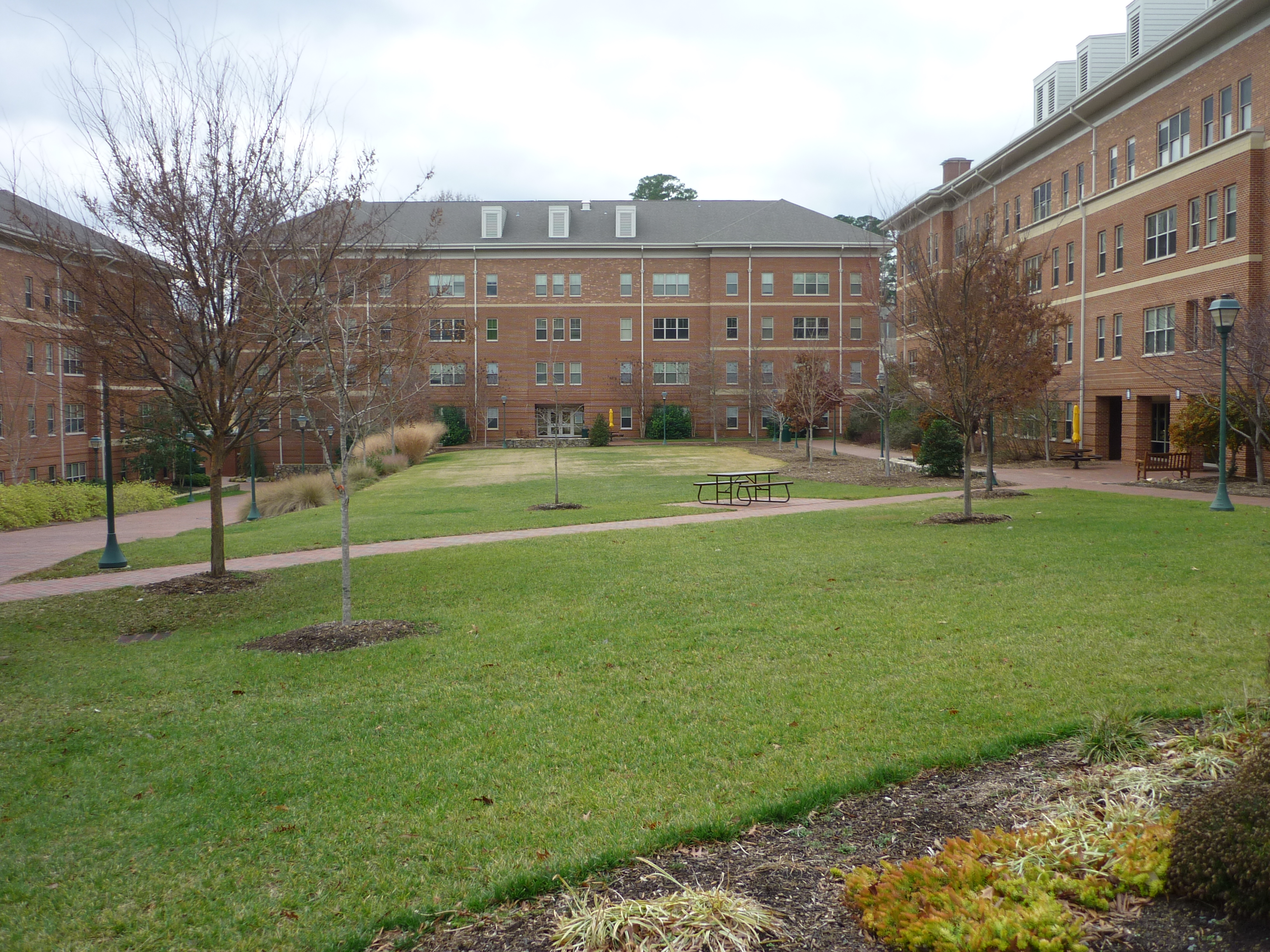 Ram Village Apartments on University of North Carolina at Chapel Hill campus, taken in January 2013